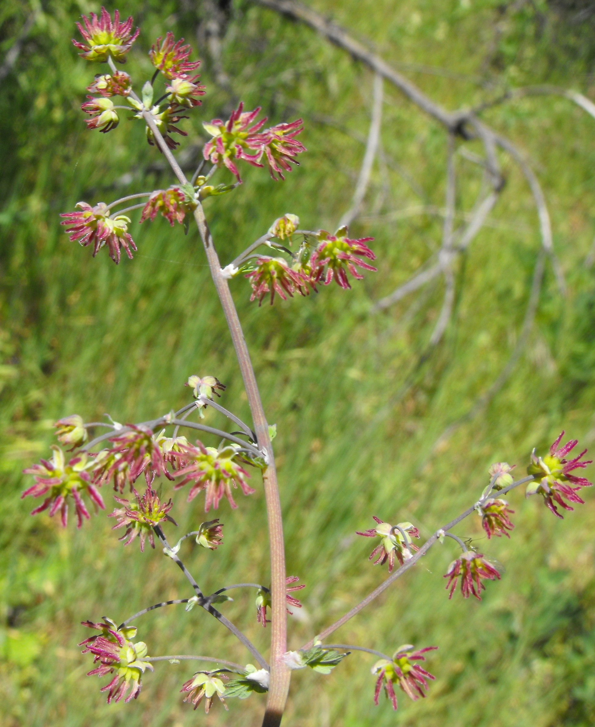 Thalictrum fendleri — near Loveland Reservoir outside Alpine, eastern Sierra Nevada, California, USA.